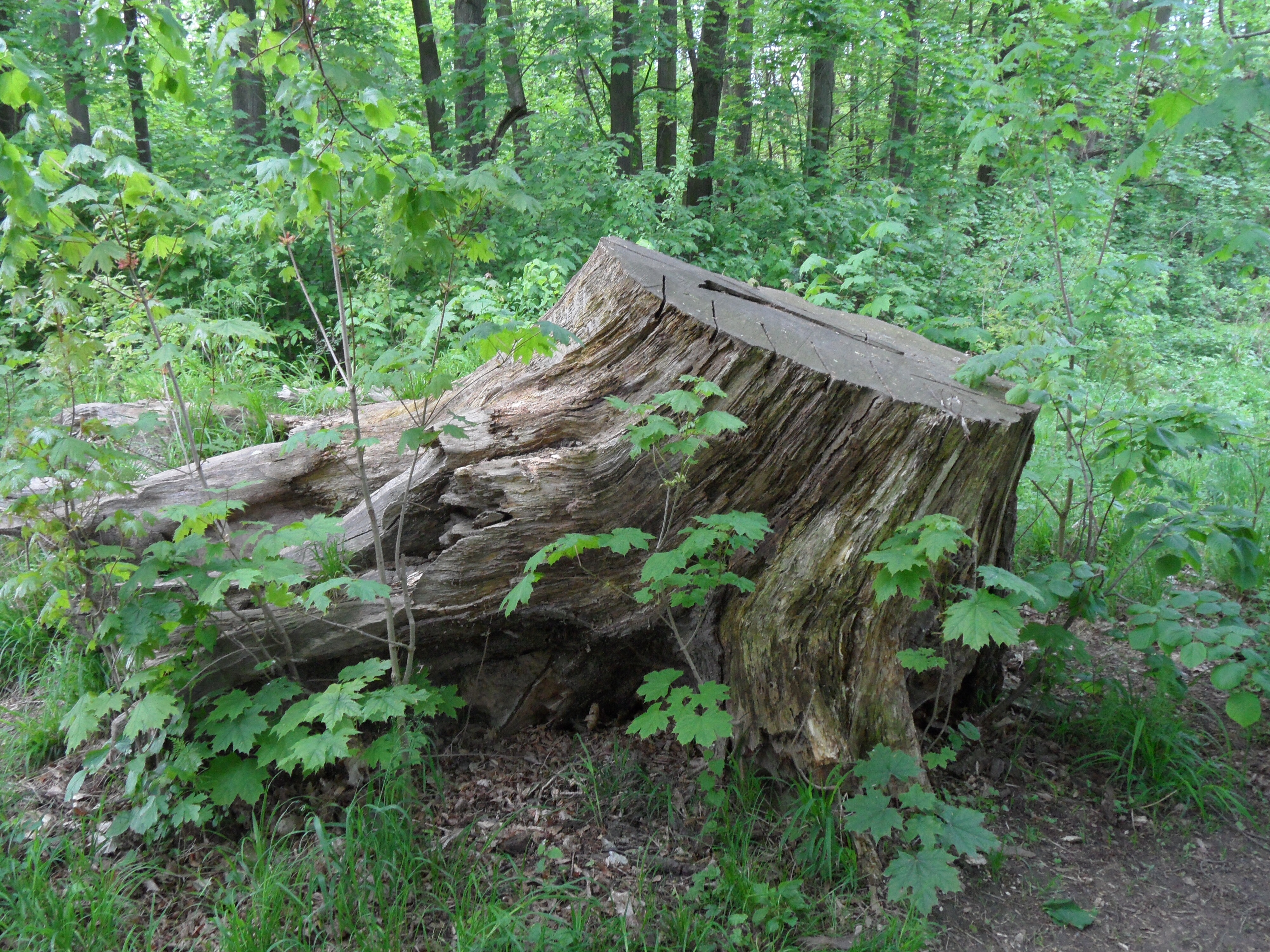 Poděbrady, Famous tree Quercus robur called Zádušní dub, remaining Tree Stumb. View from Labe Bank. Nymburk District, the Czech Republic.�